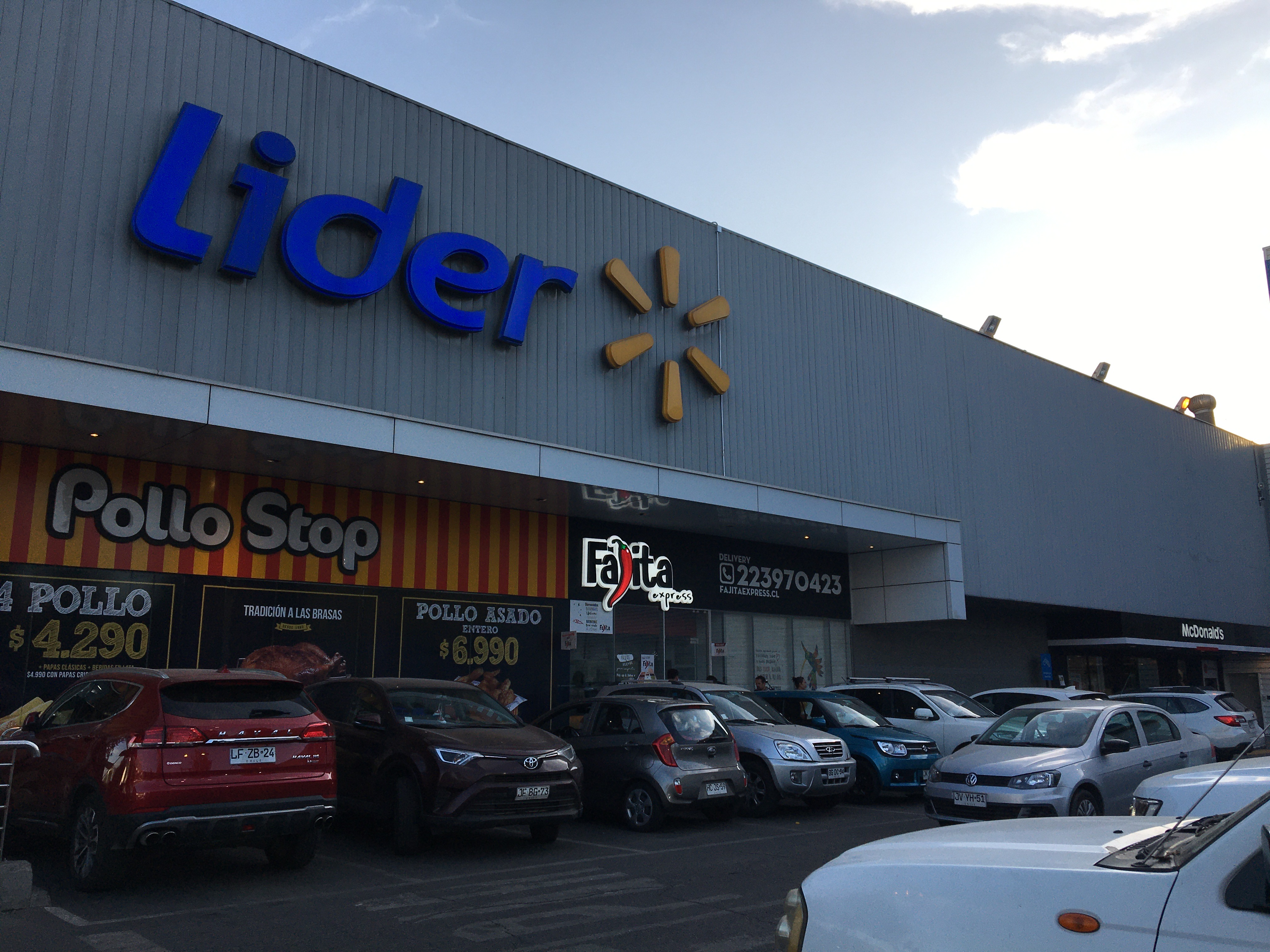 Walmart Chile